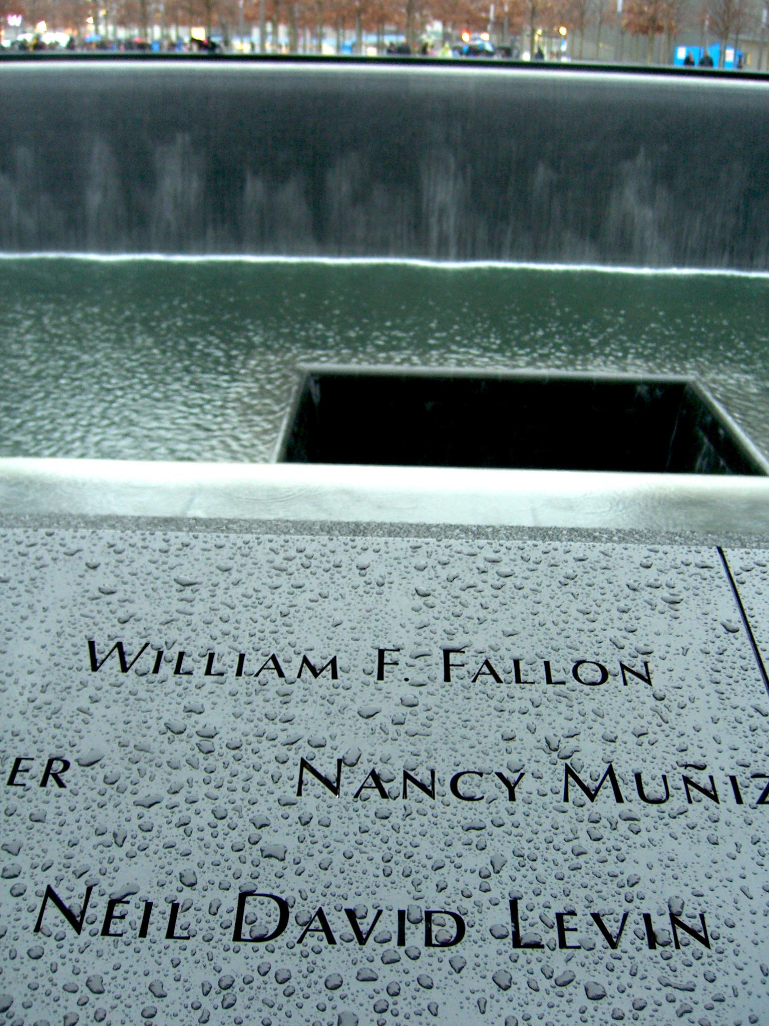 The names of William F. Fallon, Nancy Muñiz and Neil David Levin are seen with those of other 9/11 victims inscribed on bronze panel N-65 of the North Pool of the National September 11 Memorial in Manhattan, as seen on December 6, 2011. This photo was created by Luigi Novi. If you have any questions, you can contact me by sending me an email or User talk:Nightscream